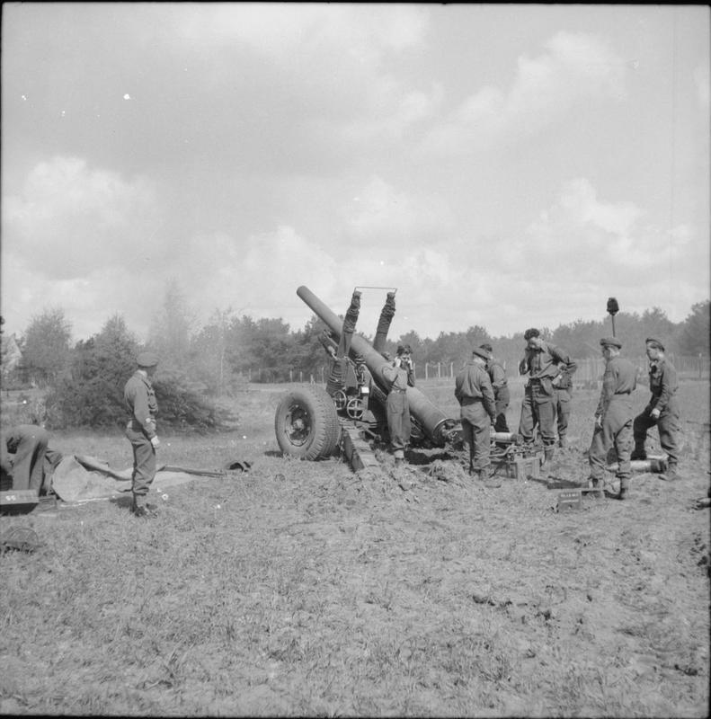 The British Army in North-west Europe 1944-45 A 5.5-inch field gun of 64th Medium Regiment, Royal Artillery, firing on Bremen, 24 April 1945.